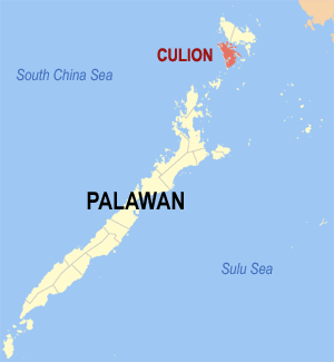 Map of Palawan showing the location of Culion